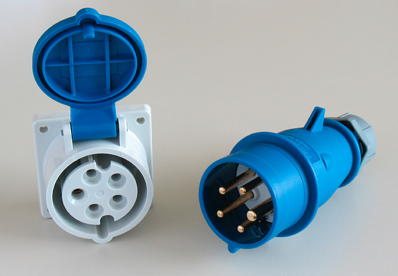 Plug and socket 3P+N+PE 9h according to IEC 60309 for 120/208–144/250V, 50/60Hz, 16A.